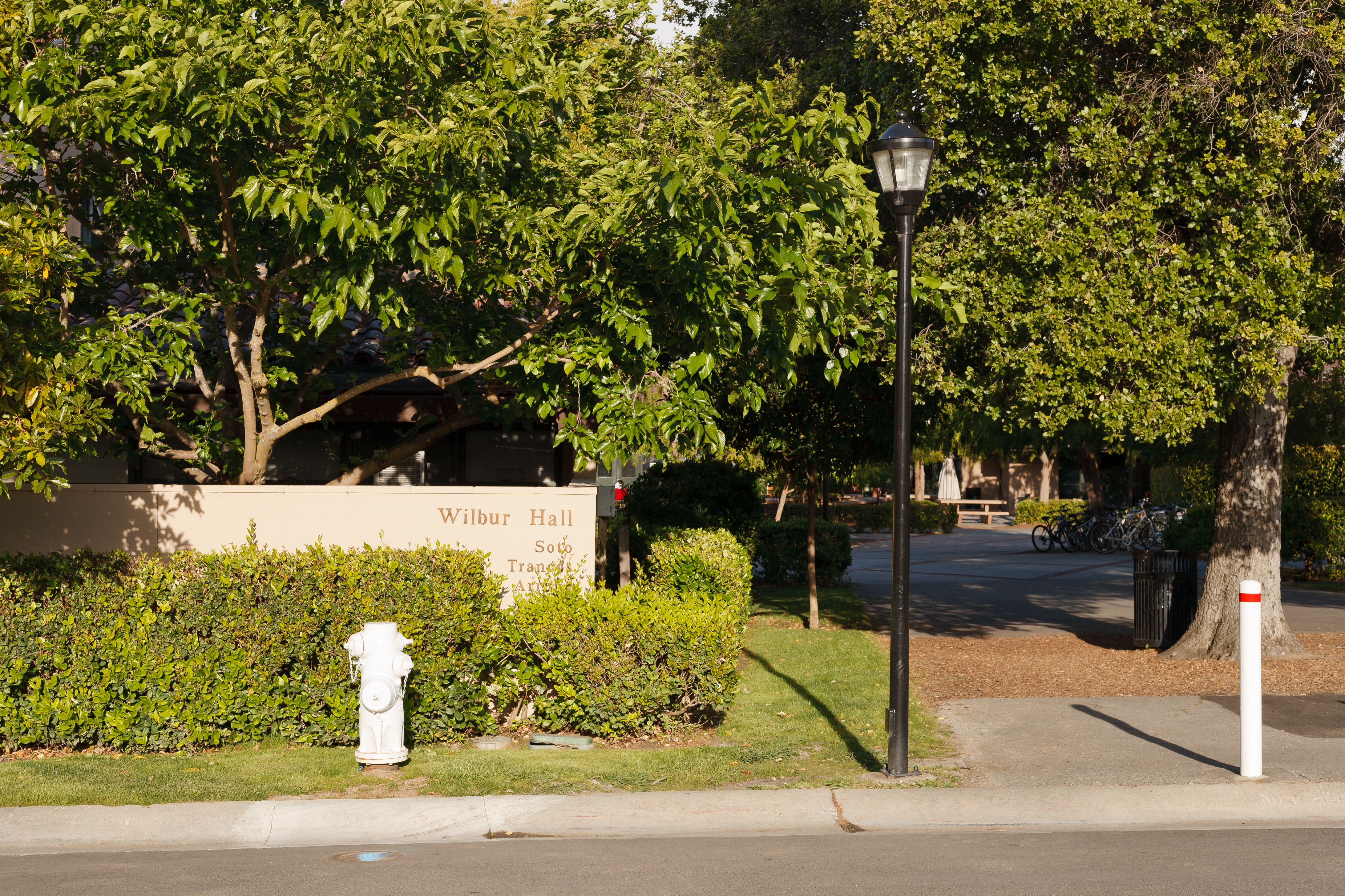 West entrance to Wilbur Hall, Stanford University, California.